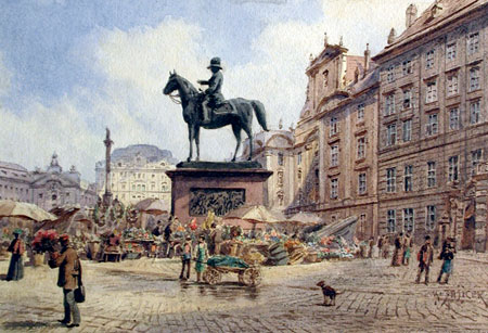 Market life in front of the Radetzky memorial at the court in Vienna, watercolor painting on paper, signed, 11 cm x 16 cm